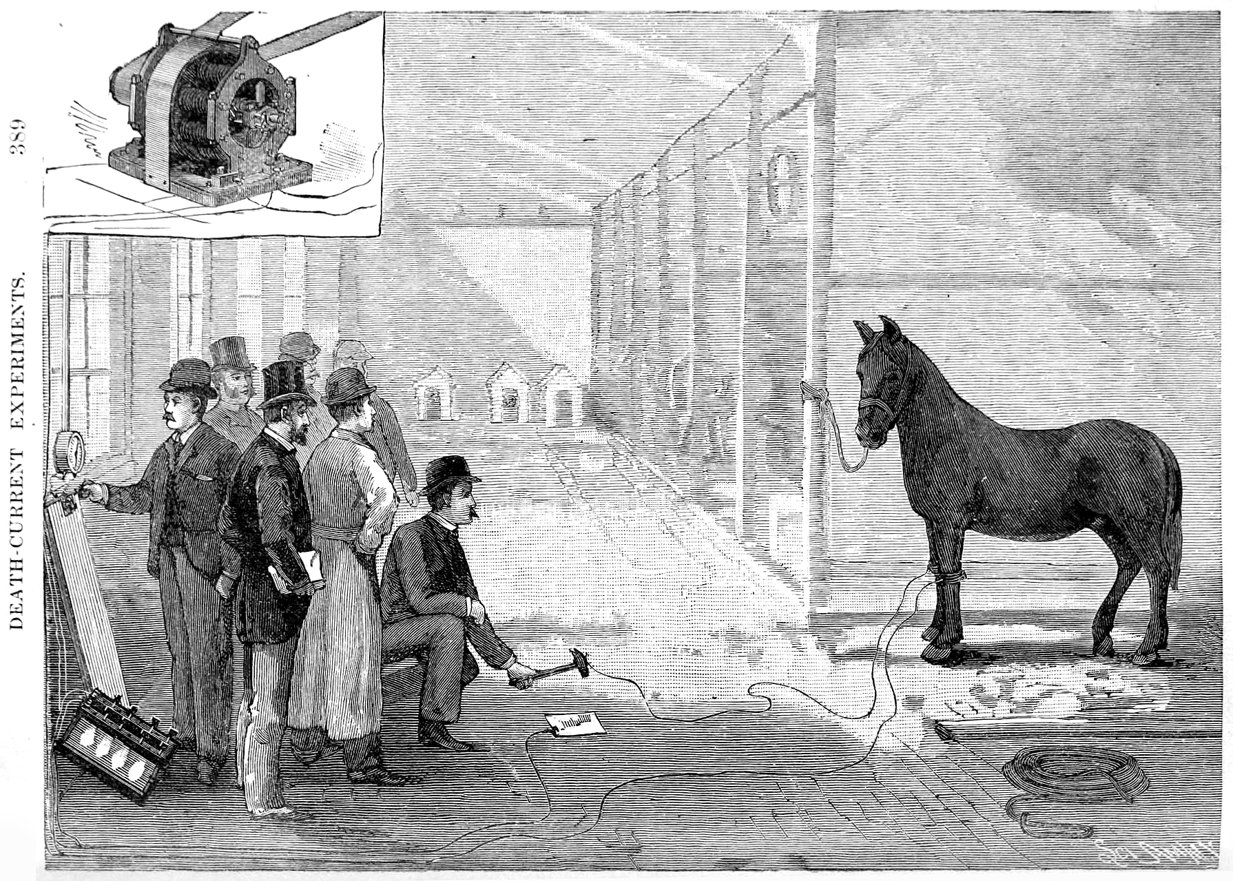 Anti-alternating current demonstration by activist Harold P. Brown demonstrating the killing power of AC to the New York Medico-Legal Society by electrocuting a horse at Thomas Edison's West Orange laboratory. Illustration was originally from "Experiments on Death by Electricity", Scientific American 59 - December 22, 1888. In order to more conclusively prove to the Society that alternating current would be suitable for the electric chair Brown set up an experiment with members of the press, members of the Medico-Legal Society, the chairman of the death penalty commission, and Thomas Edison looking on. The image depicts Brown in an unsuccessful attempt using a hammer and a metal plate to make contact. Brown eventually dispatched the horse with 750 volts of AC. Based on these results the Medico-Legal Society recommended the use of 1000-1500 volts of alternating current for executions.